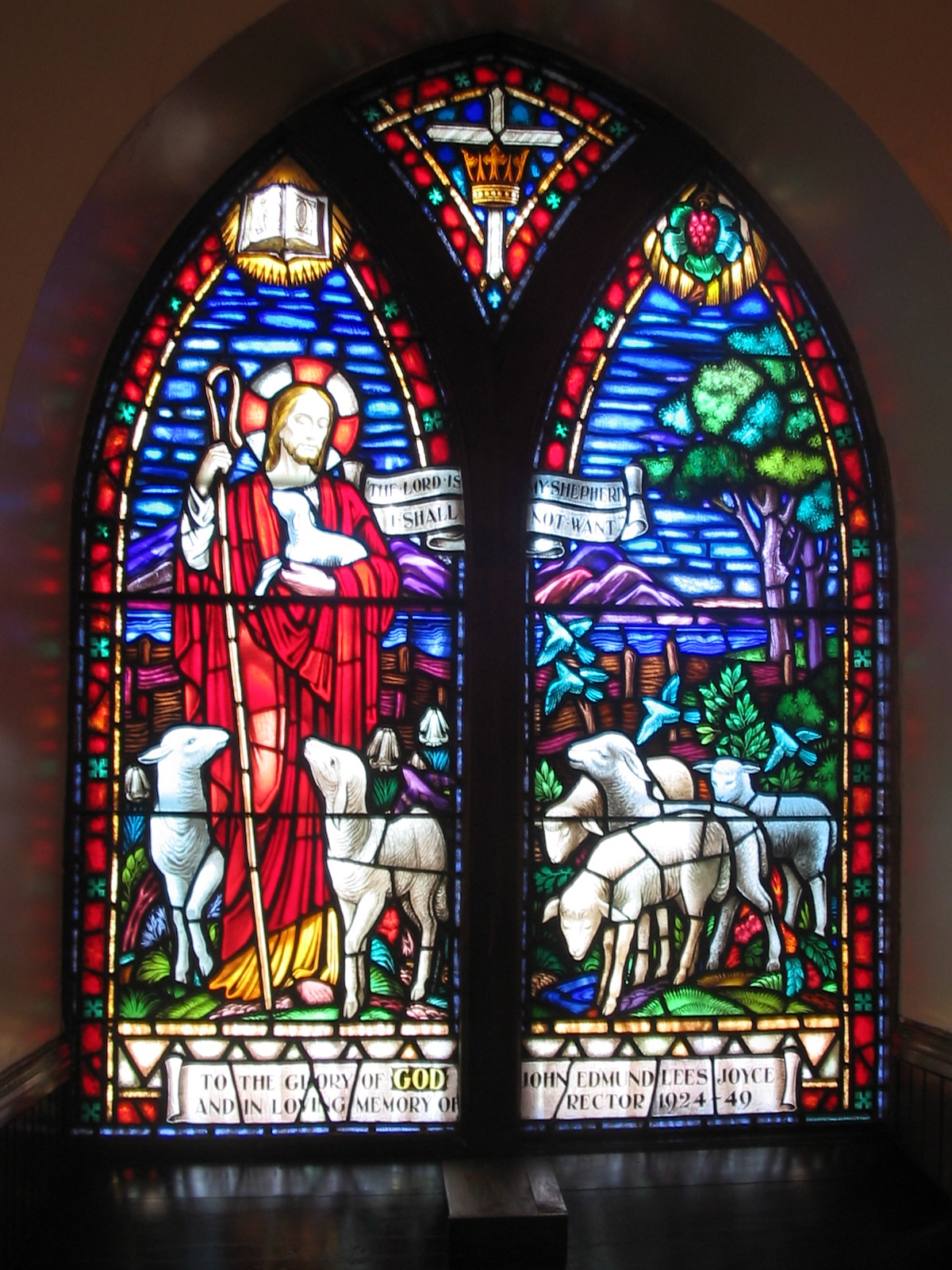 A stained glass window at St. Stephen's Anglican Church, Buckingham, PQ